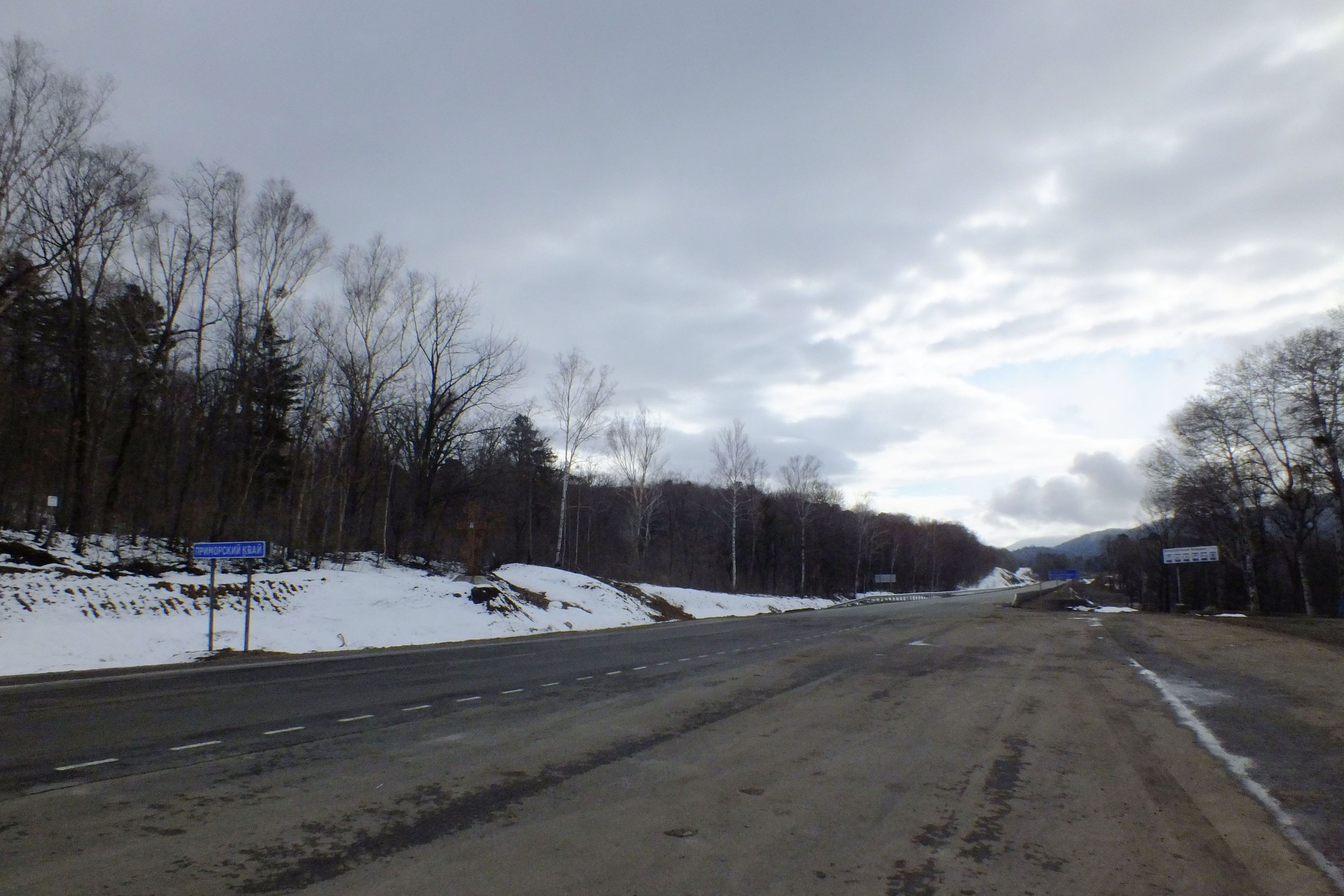 Highway Ussuri (M60), the border of Habarovsk and Primorsky Krays